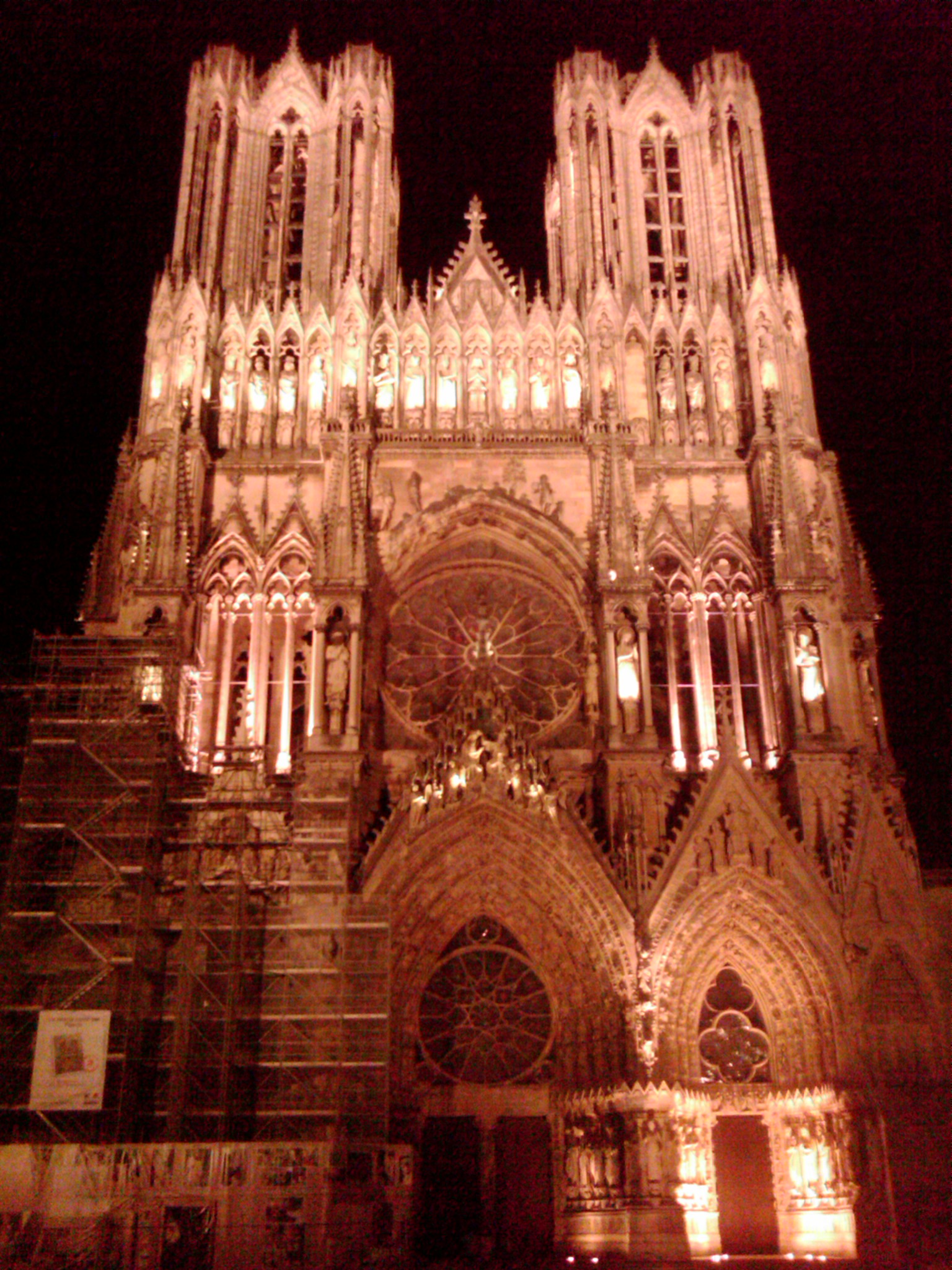 Reims Cathedral at night. Picture taken with my Blackberry Storm.